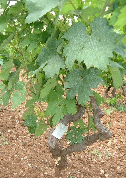 This is a vine of Crljenak Kaštelanski in the vineyard of Ivica Radunić, where it was discovered. The small metal tag from the University of Zagreb indicates that this vine is reserved for genetic research. This particular vine is 40 years old, among the oldest still in existence. Author: A. Matulić. Author's POV notes I took this picture during a visit to this vineyard in Kaštel Novi during a vacation with my family in June 2006. Mr. Radunić graciously showed us around and gave me some literature about the research conducted jointly by UC Davis and University of Zagreb, and which I summarized in the English Zinfandel article. He is now growing a few vines of California Zinfandel in his vinyeard to see how it compares to Crljenak Kaštelanski when grown from the same location. Nearly everybody in Croatia seems to grow grapes on trellises over carports and yards for shade, and they produce wine from this. Mr. Radunić himself isn't a commercial grower or winemaker, although with a 5-acre vineyard he grows more grapes than most folks. He produces wine privately and sells some to other residents in town. He grows several varietals which he blends. I have tasted his wine and found it quite good. His wine has recently won awards in local competitions. Amatulic 18:43, 18 August 2006 (UTC)